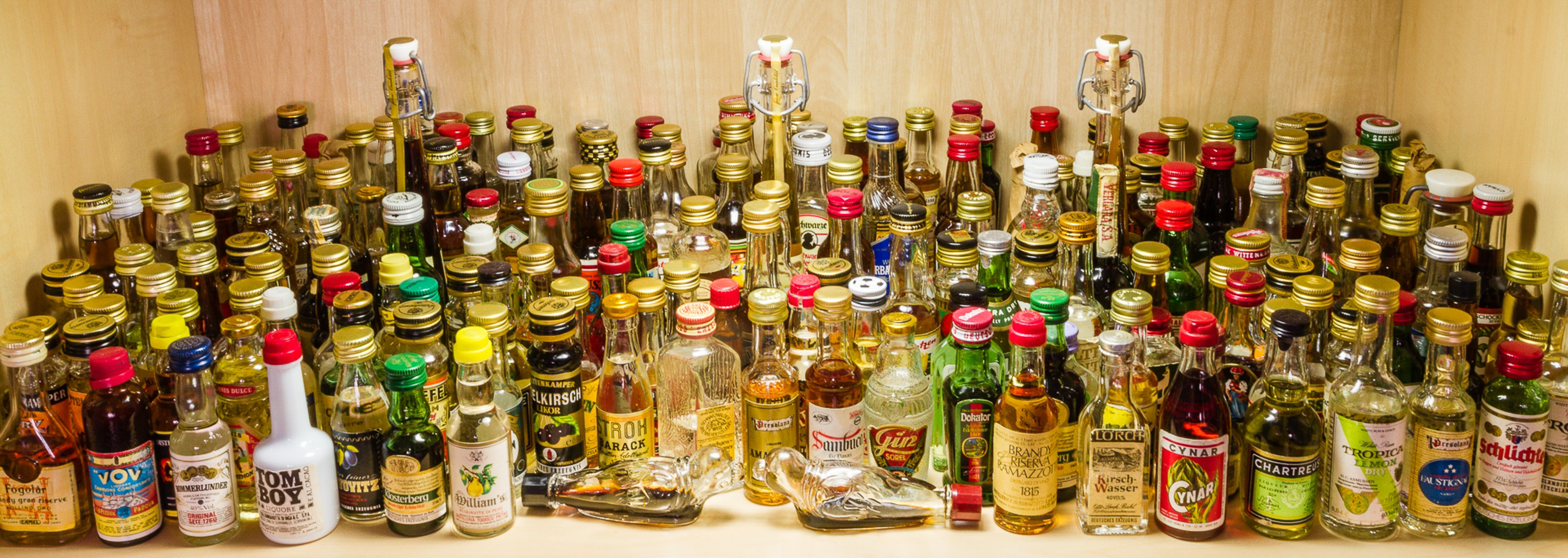 Collection of miniature bottles of spirits